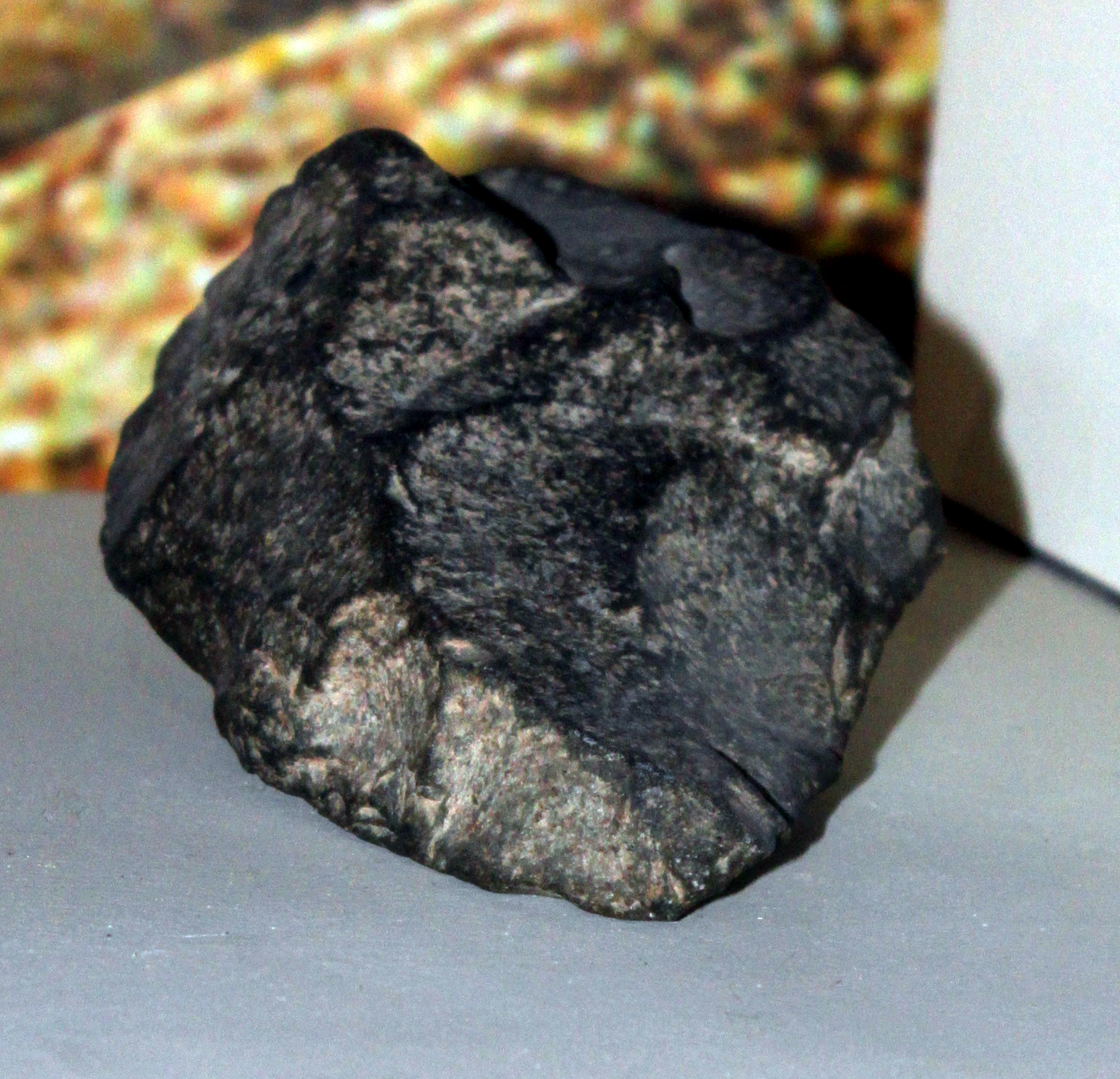 Çaxmaqdaşından əmək aləti, IV təbəqə, Azıx